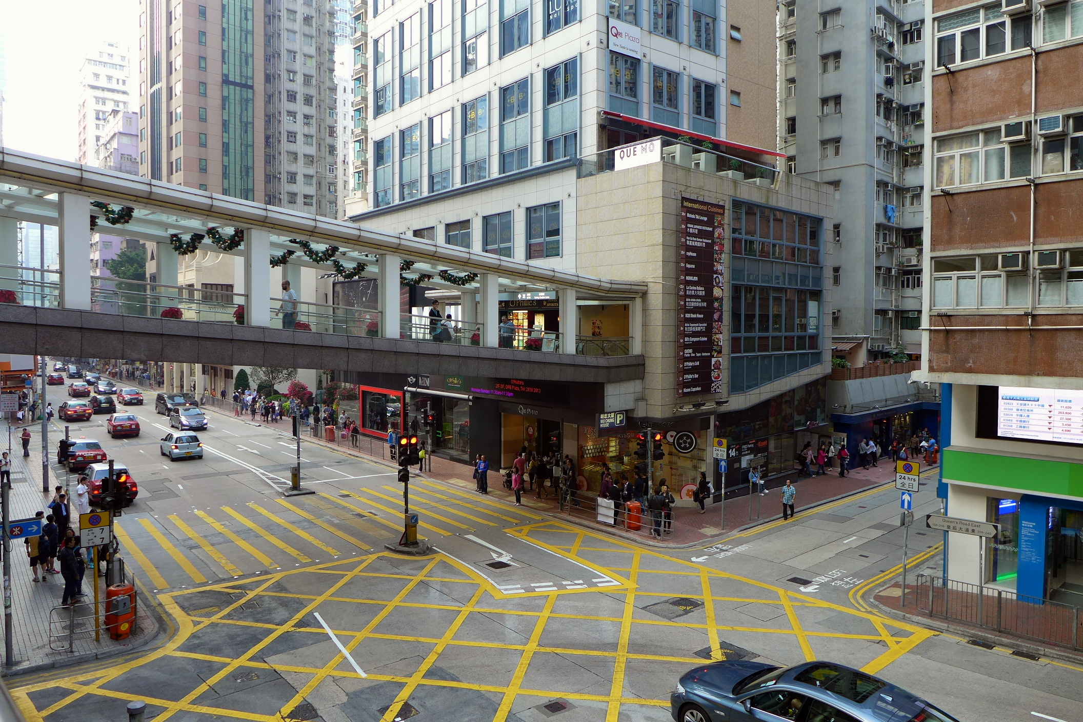 QRE Plaza Bridge Access